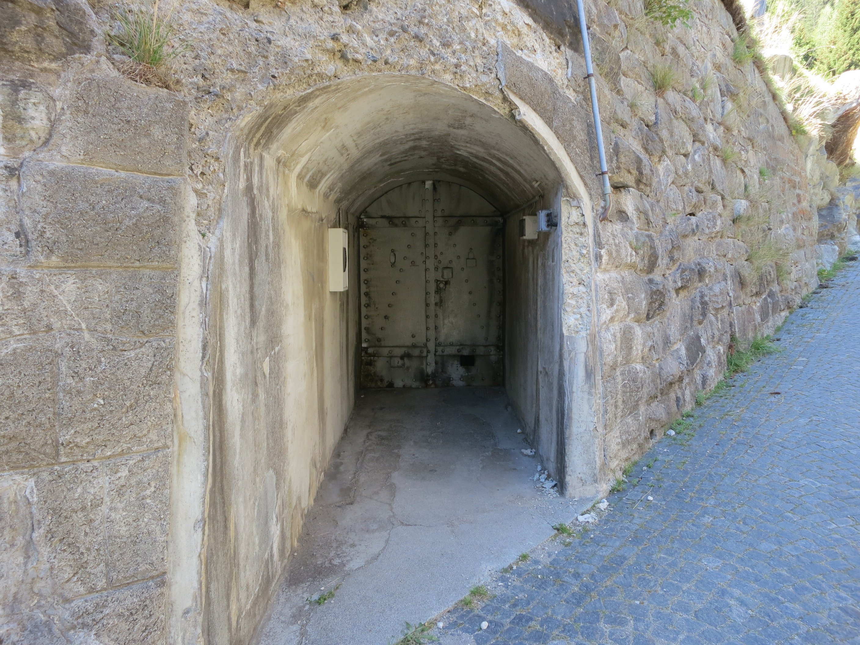 Forte Airolo, Airolo, Schweiz